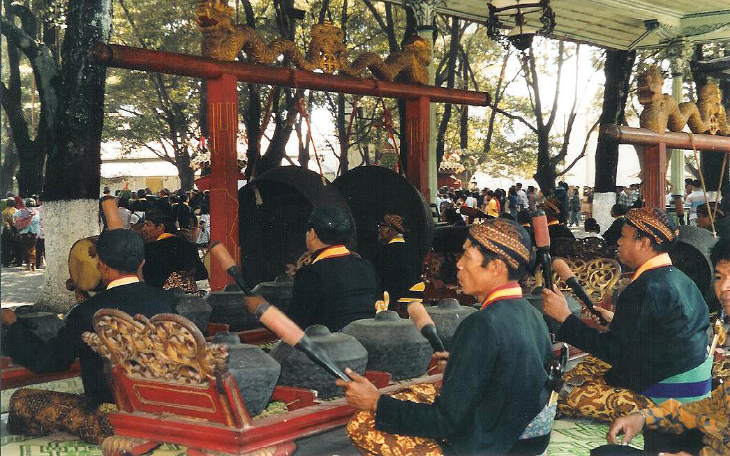 Gamelan ceremonial Munggang, Kraton Surakarta